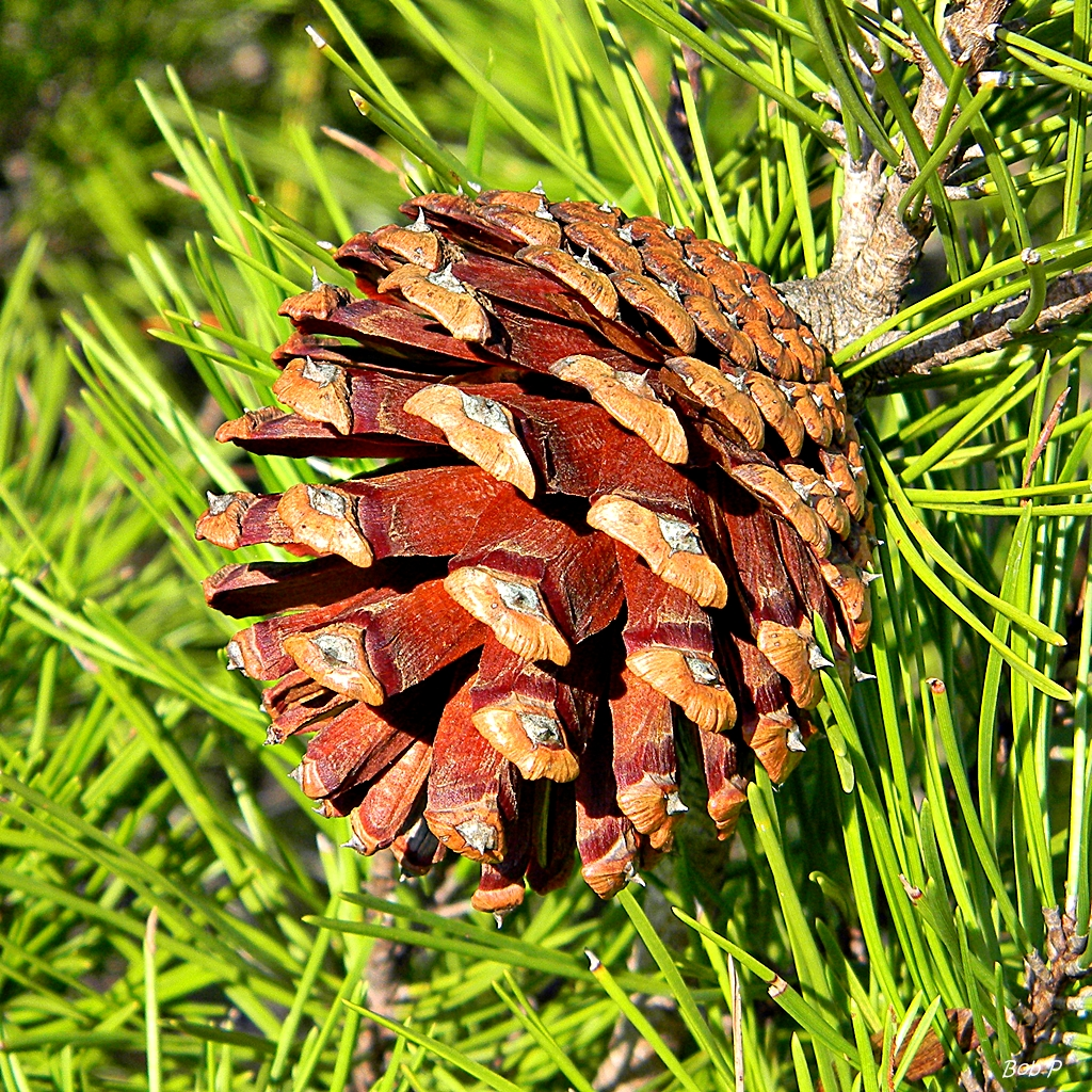 This form of Sand Pine Pinus clausa commonly has serotinous cones that require an environmental trigger (fire) to open. However, this young pine's cone matured, opened and dispersed seed all on it's own and hopefully some new ones will be springing up. About 20% of the individuals produce some open cones while the others produce closed cones that accumulate until fire triggers them to open.